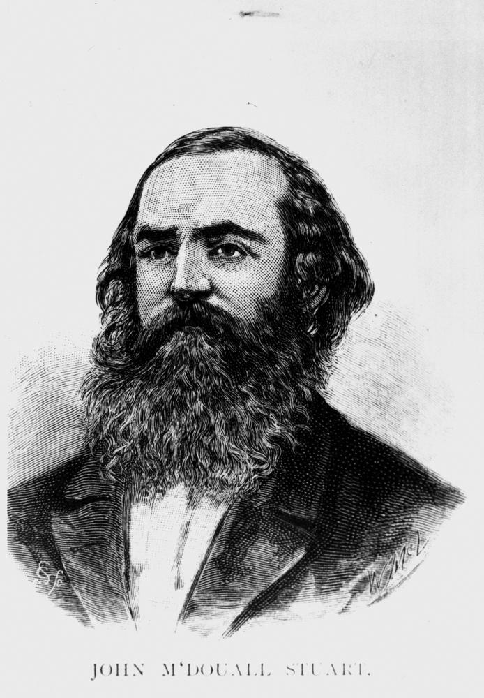 John McDouall Stuart. Arrived in South Australia from Scotland in 1839 and joined Charles Sturt's party exploring the centre of the continent. Later in 1859, John McDouall set out with four others blazing a trail to make a permanent route north [from Adelaide?]( Information taken from Australian Dictionary of Biography, v.6. pp. 214-215).